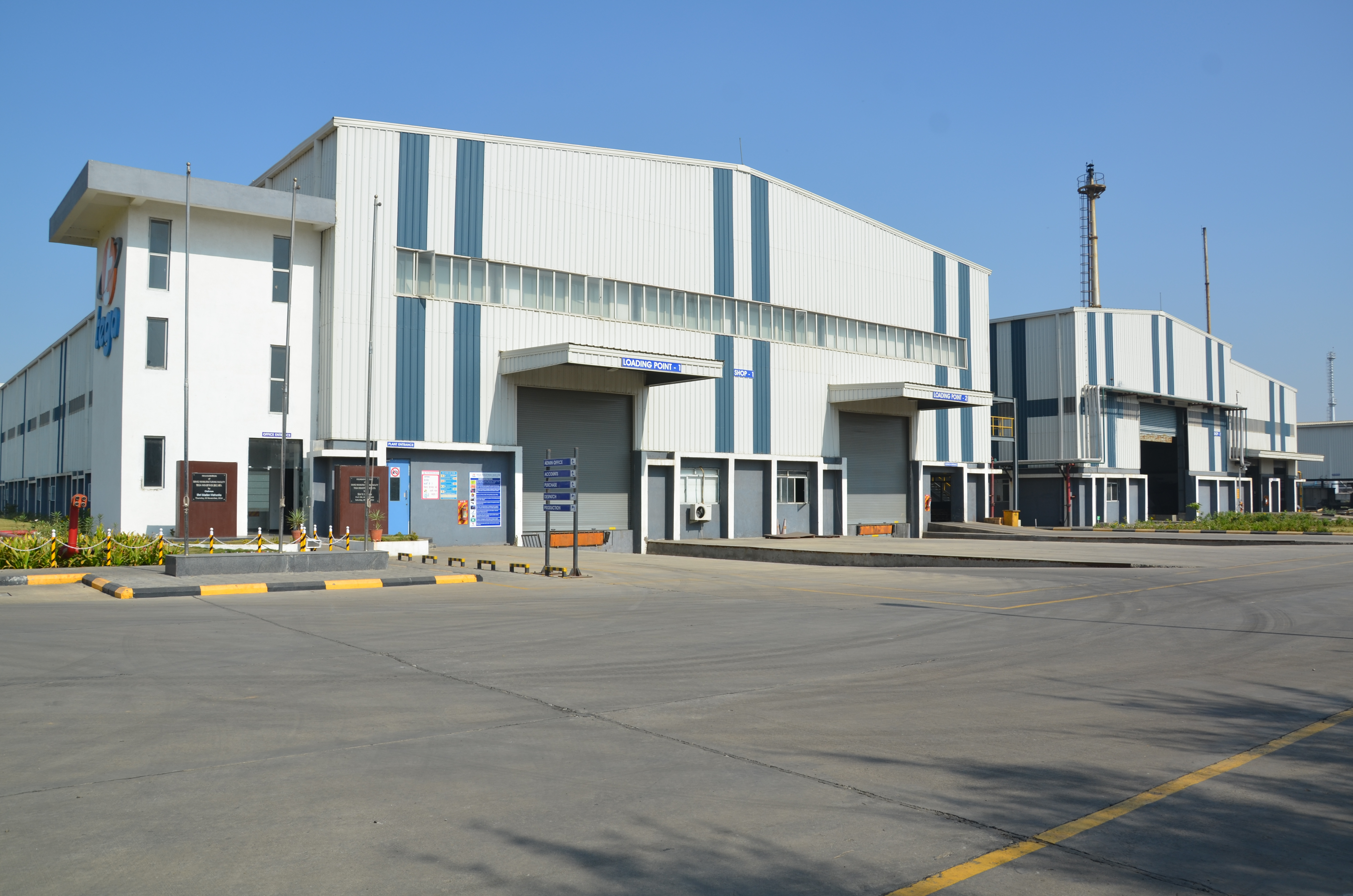 Tega state of art plant at Dahej, Gujrat